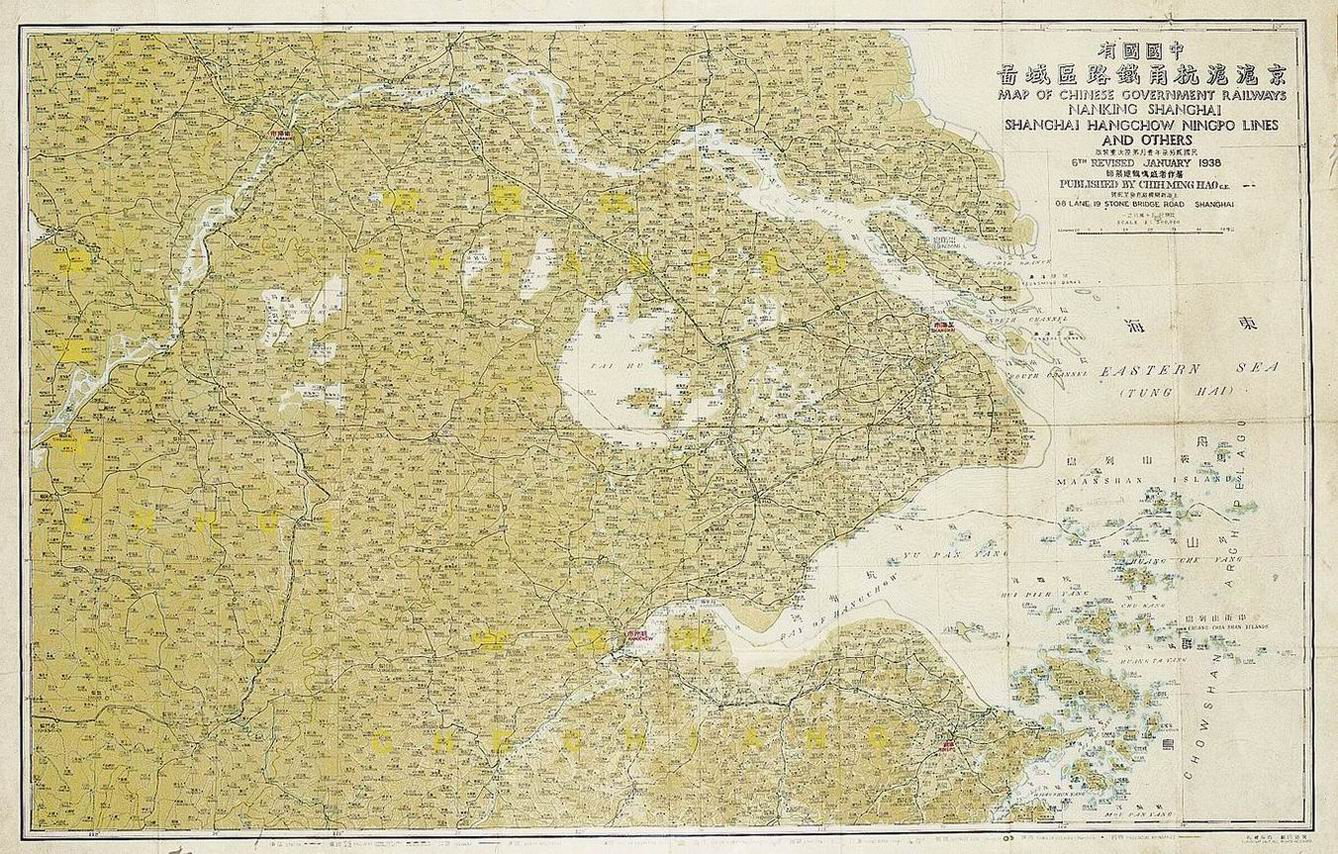 Map of Chinese Government Railways Nanking - Shanghai, Shanghai - Hangchow - Ningpo Lines and Others